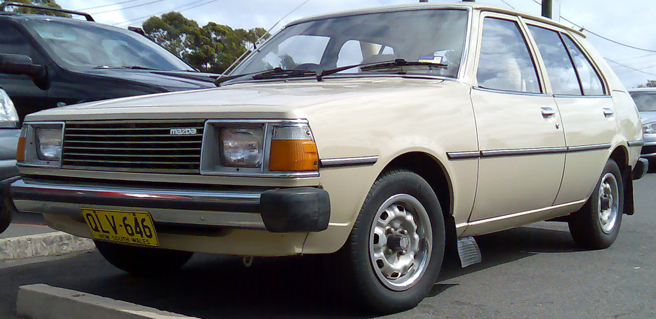 1980 Mazda 323 (FA4TS) 1.4 hatchback. Photographed in Gymea, New South Wales, Australia.